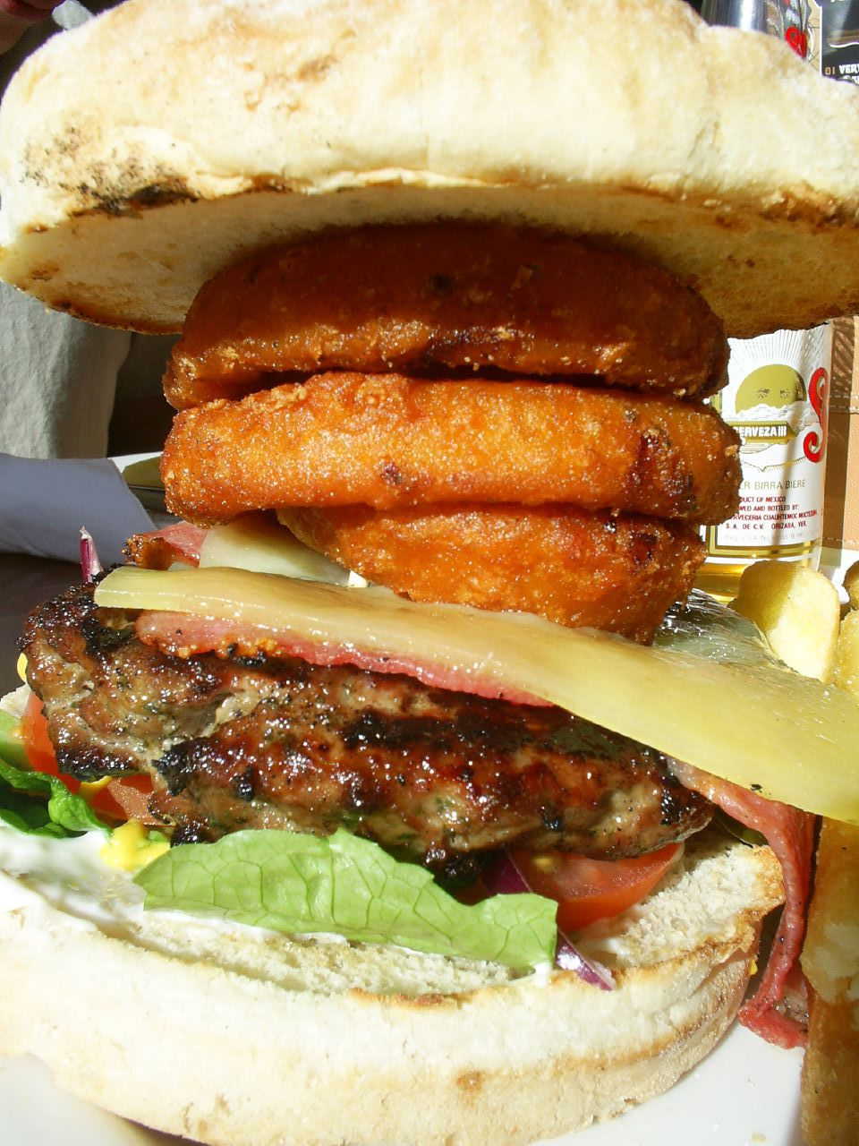 This was my lunch yesterday, if it gave me a heart attack it would have been worth it :) Starting from the bottom: Mayo Salad (lettuce tomato cucumber) A little mustard 6oz angus steak burger bacon cheese dill pickles THREE onion rings (count 'em!) Frenchies Mustard Jalapenos Oh yeah and all in a really nice bun and served with lovely chunky chips